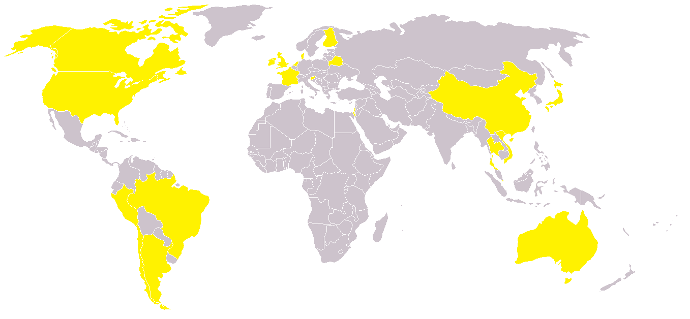 Countries that have reported swine flu Tamiflu resistance.